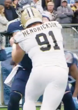 Trey Hendrickson 2019. Image from video Titans Mic'd Up vs. Saints (Week 16) | Sounds of the Game, ~ 00:20.